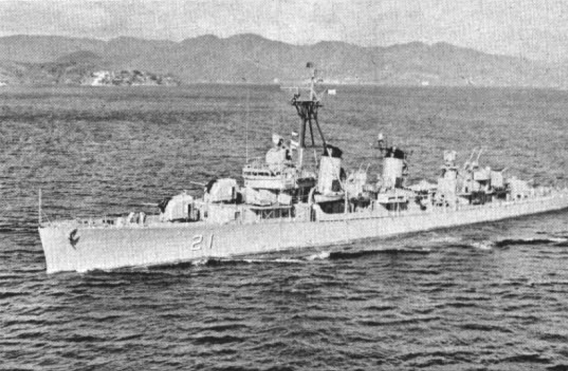 The Argentine destroyer ARA Espora (D-21) underway during exercise UNITAS III, in 1962. Espora had been commissioned in the United States Navy as USS Dortch (DD-670) from 1943 to 1958. Dortch was loaned to Argentina on 16 August 1961 under the Military Assistance Program and served until 1977 when she was stricken and broken up for scrap.